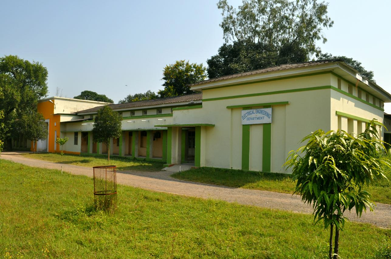 Jabalpur Engineering College (JEC)'s Electrical Department.